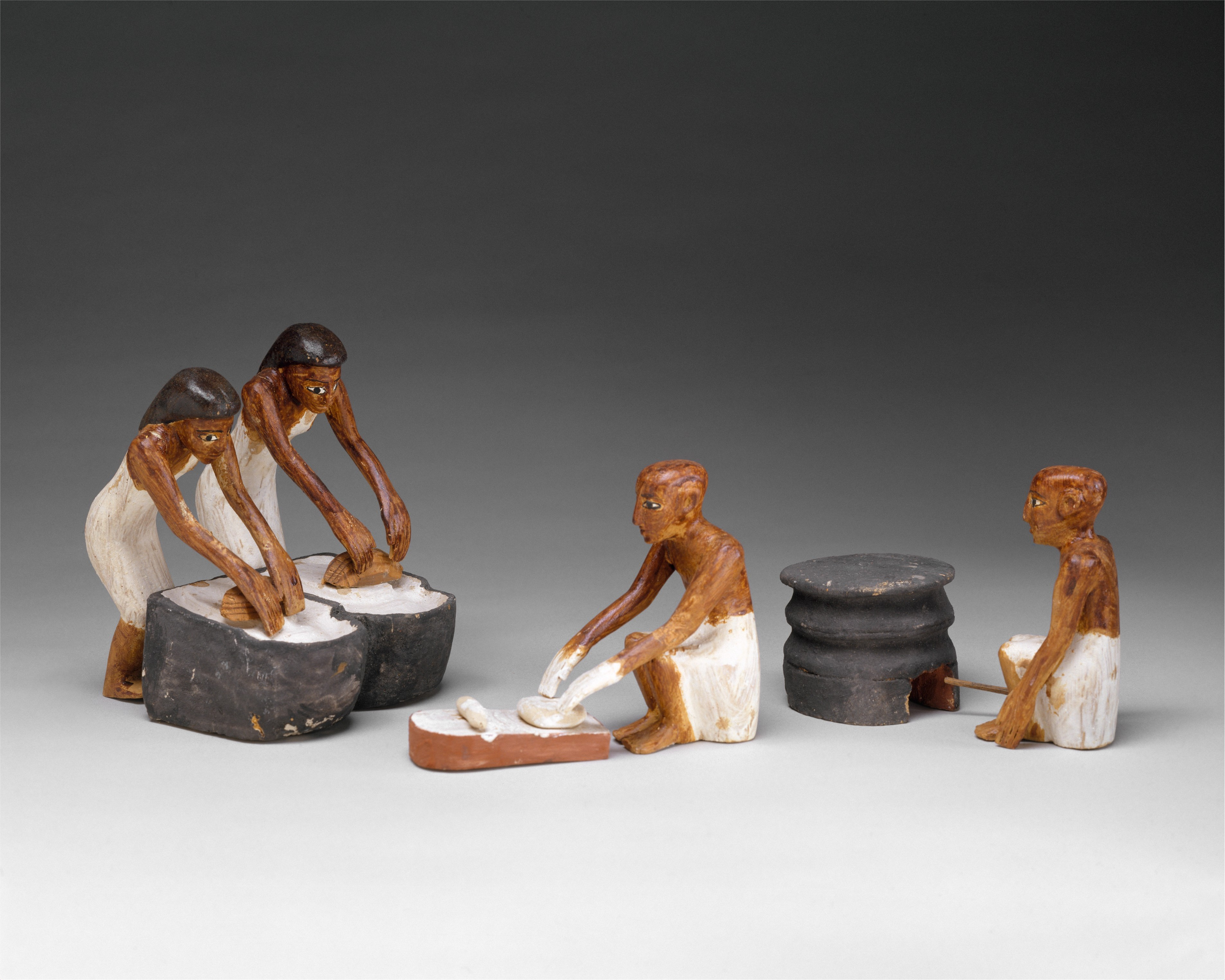 Bakery, brewery, Meketre